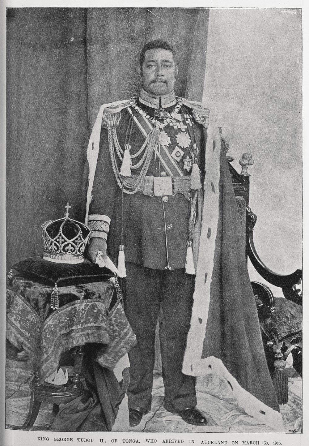 KING GEORGE TUBOU II., OF TONGA, WHO ARRIVED IN AUCKLAND ON MARCH 30, 1905. Taken from the supplement to the Auckland Weekly News, 6 April 1905.